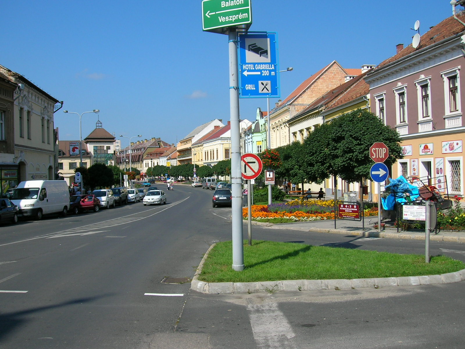 Downtown. Tapolca, Veszprém county, Hungary.